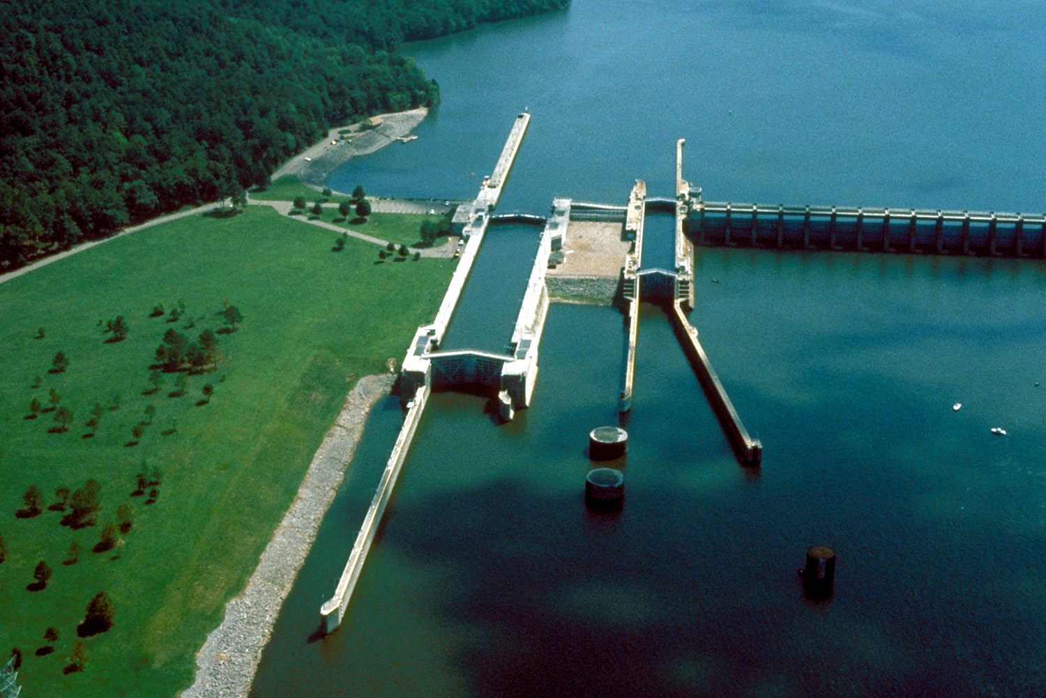 Guntersville Lock and Dam on the Tennessee River near Guntersville, Alabama, USA. The lock is operated and maintained by the U.S. Army Corps of Engineers to facilitate navigation on the Tennessee River.